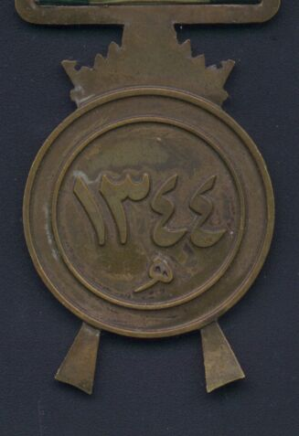 genral service medal back